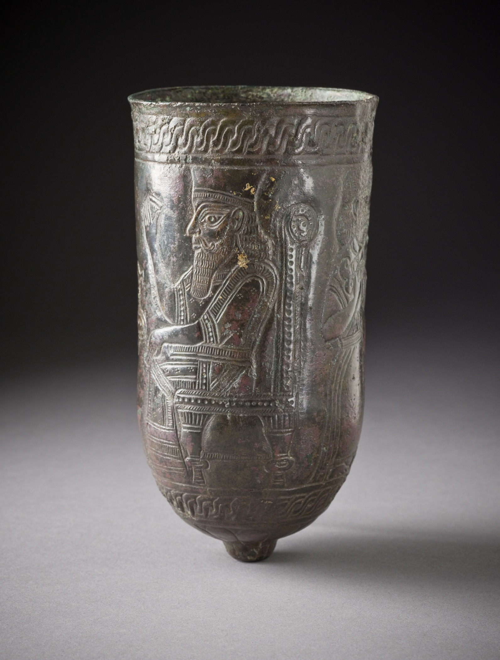 Iran, Luristan, circa 1000-800 B.C. Furnishings; Serviceware Bronze, hammered Height: 5 1/4 in. (13.5 cm); Diameter: 2 3/4 in. (7.2 cm) The Nasli M. Heeramaneck Collection of Ancient Near Eastern and Central Asian Art, gift of The Ahmanson Foundation (M.76.97.349) Art of the Ancient Near East